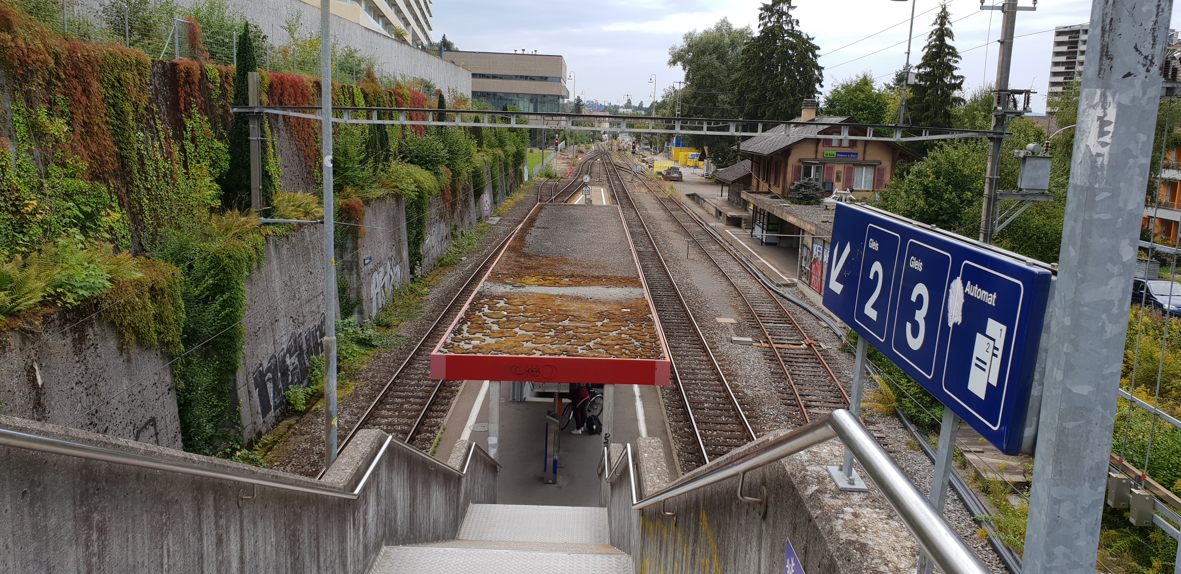 Wabern bei Bern railway station, near Bern in Switzerland, looking west from the overbridge.